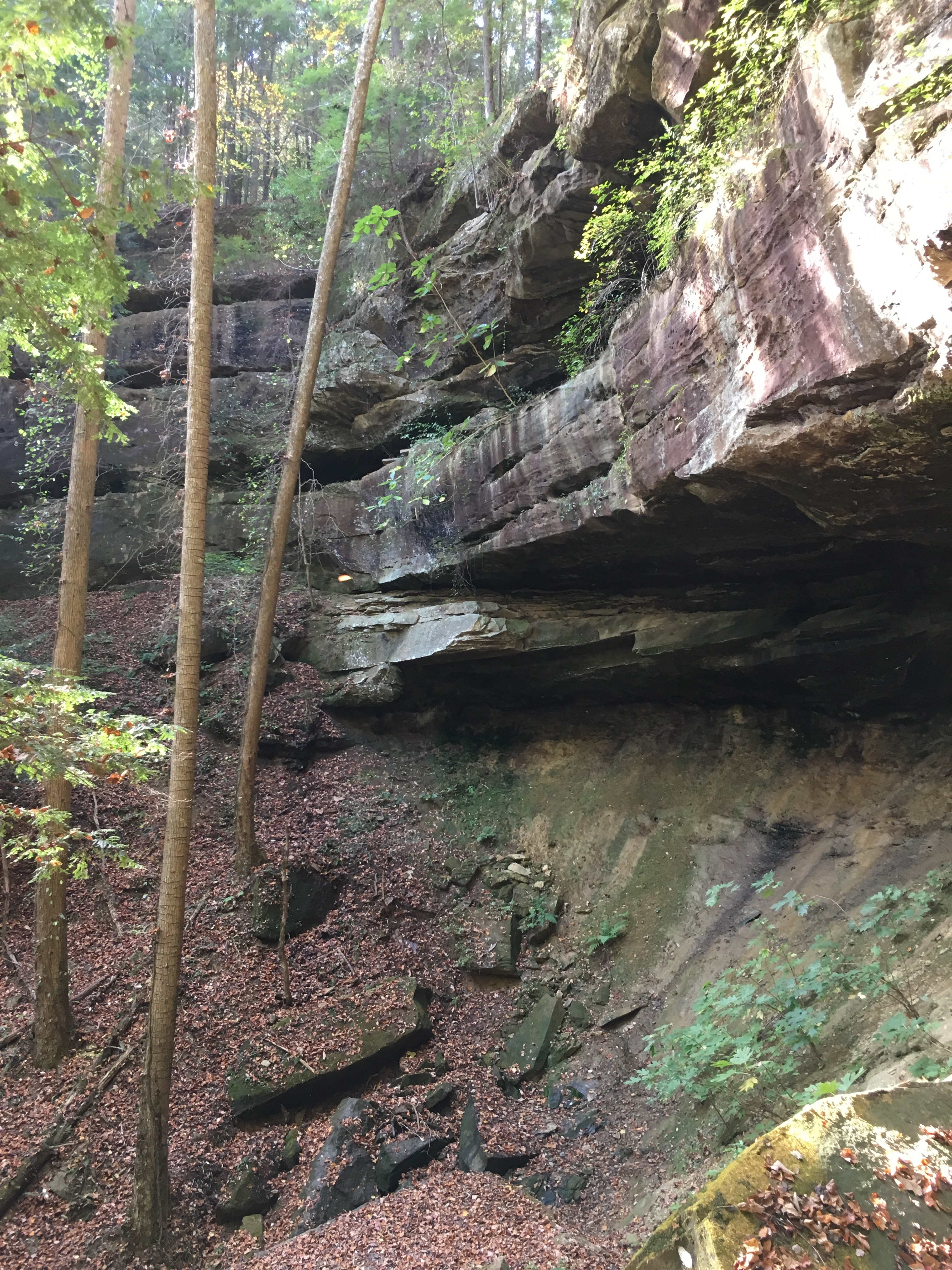 Dry waterfall along trail 202 in the Sipsey Wilderness in William B. Bankhead National Forest, Alabama.